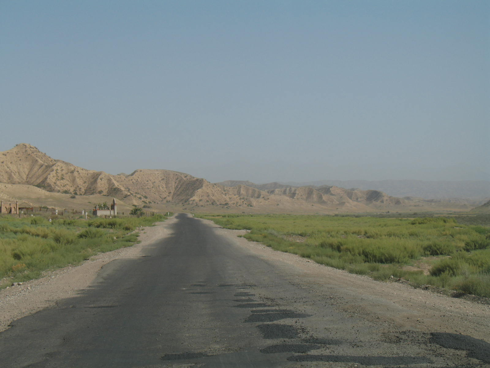 A road in southern Aksy district, Kyrgyzstan. A cemetery is visible to the left. Кыргызча: Аксы районунун бир жолу.